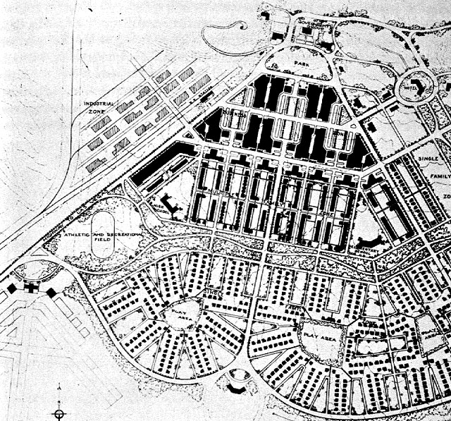 Saco Rienk de Boer (American, 1883-1974): Plan of Boulder City, Nevada, 1930